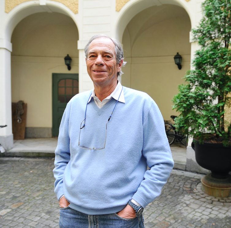 Portrait picture of Karl-Adam Bonnier